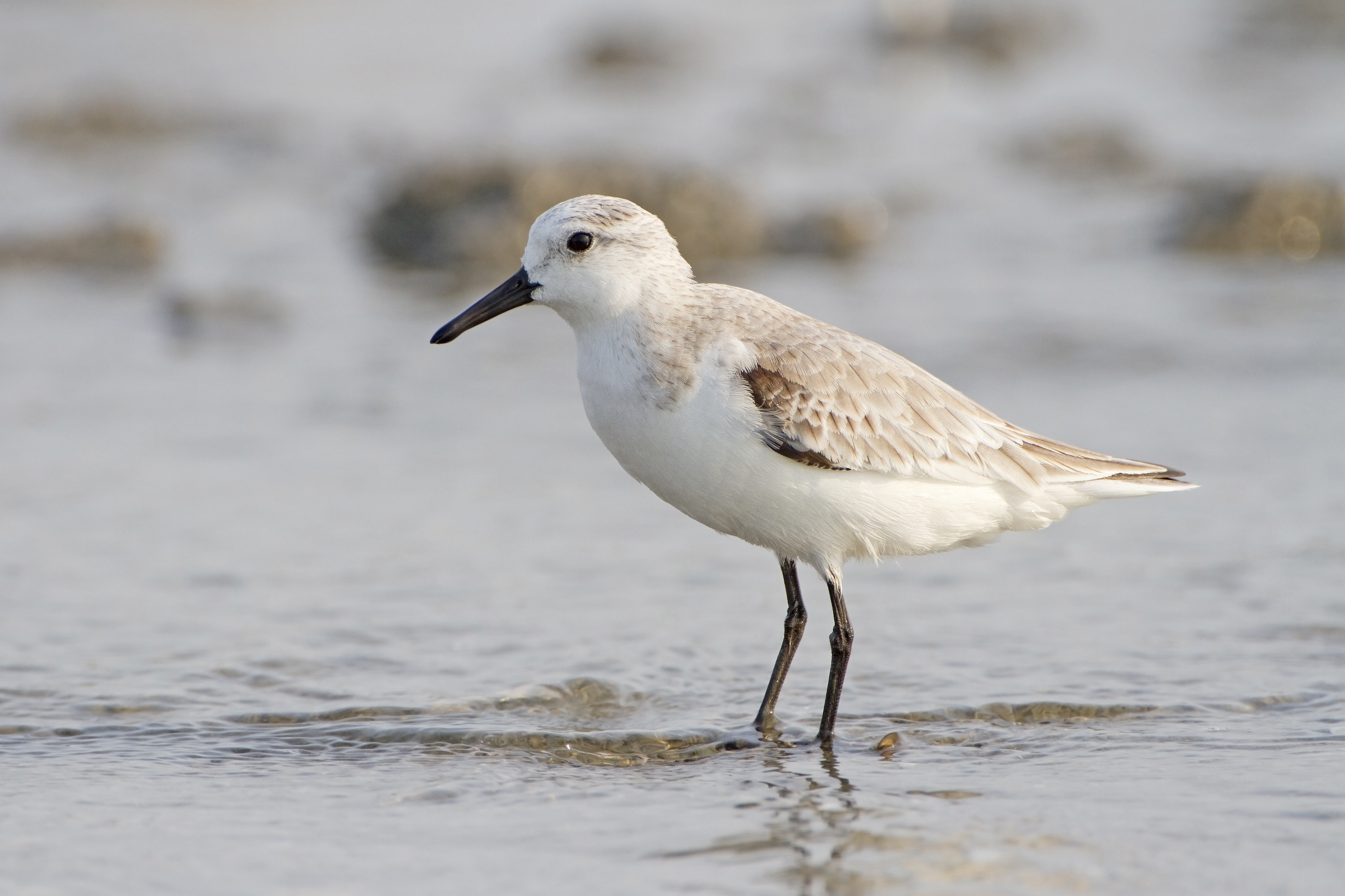 Sanderling (Calidris alba), Laem Phak Bia, Ban Laem, Phetchaburi, Thailand